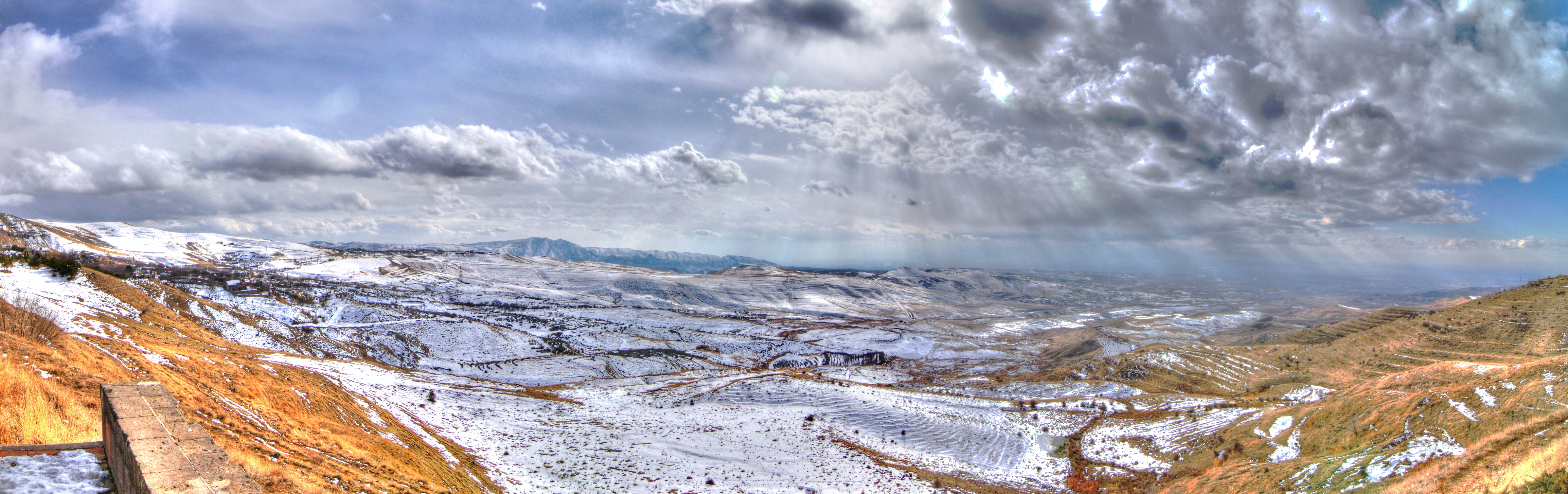 The view from the Ararat (Charents) Arch on the road to Garni from Yerevan.